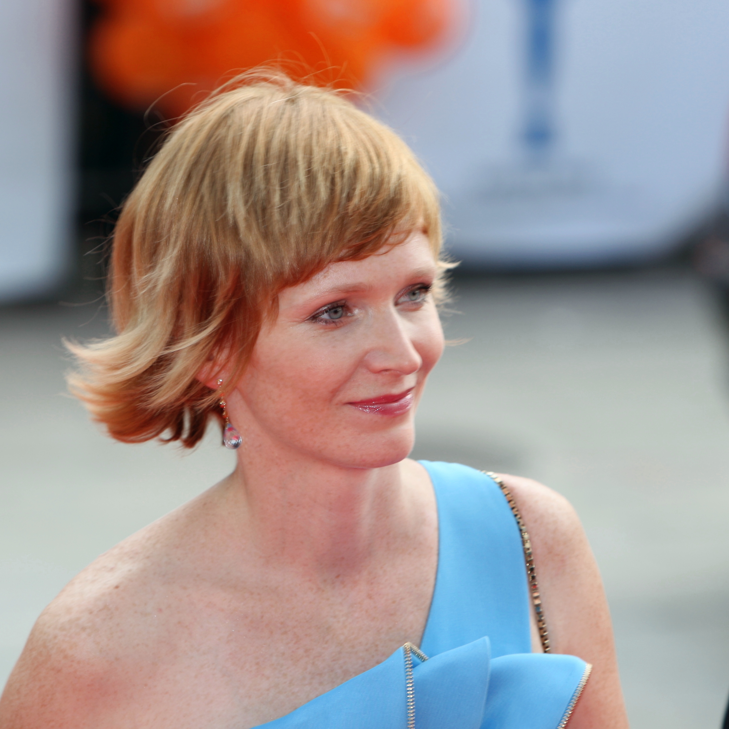 Actress Anna Geislerová at 44th Karlovy Vary International Film Festival